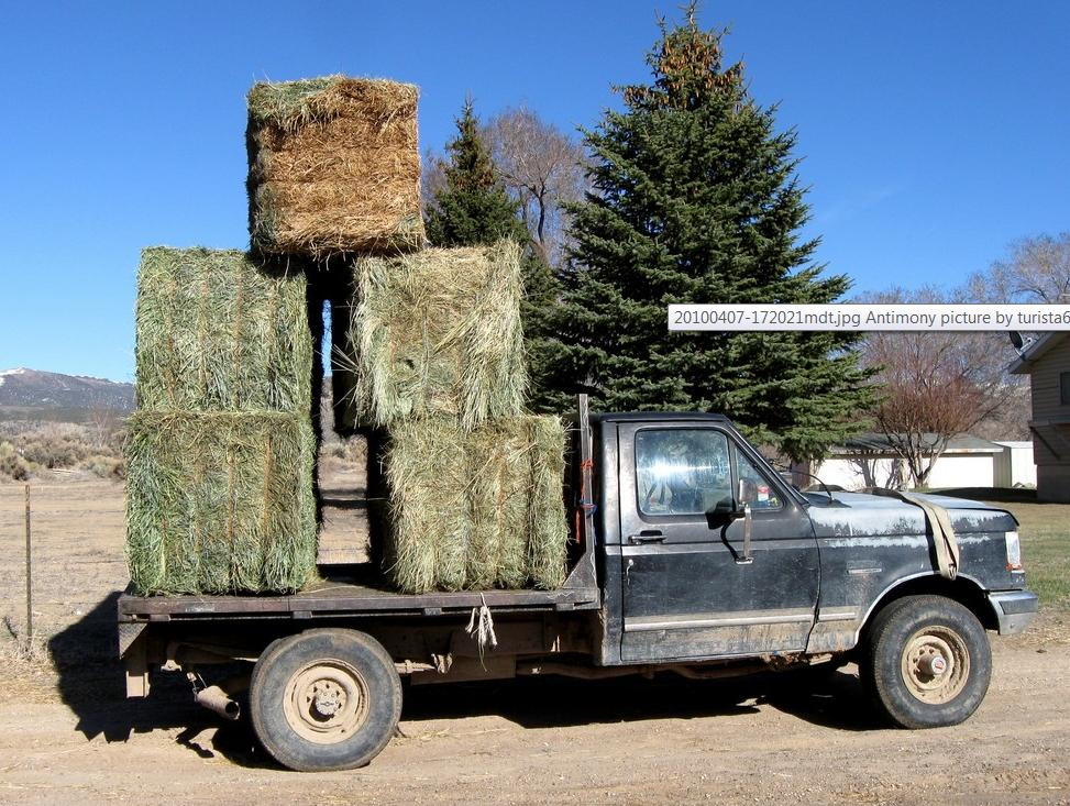 Truck loaded with square hay bales